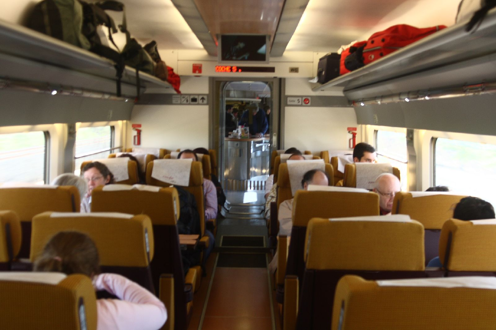 AVE Class 100 refurbished standard class.